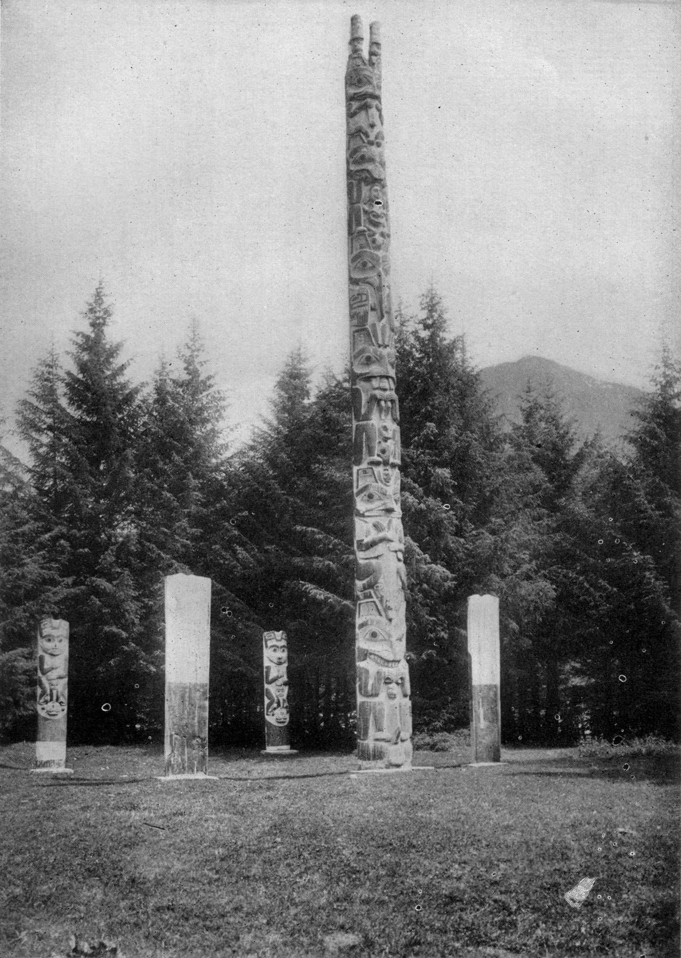 TOTEMS AT SITKA. THESE ARE HISTORY AND GRAVE MONUMENTS.